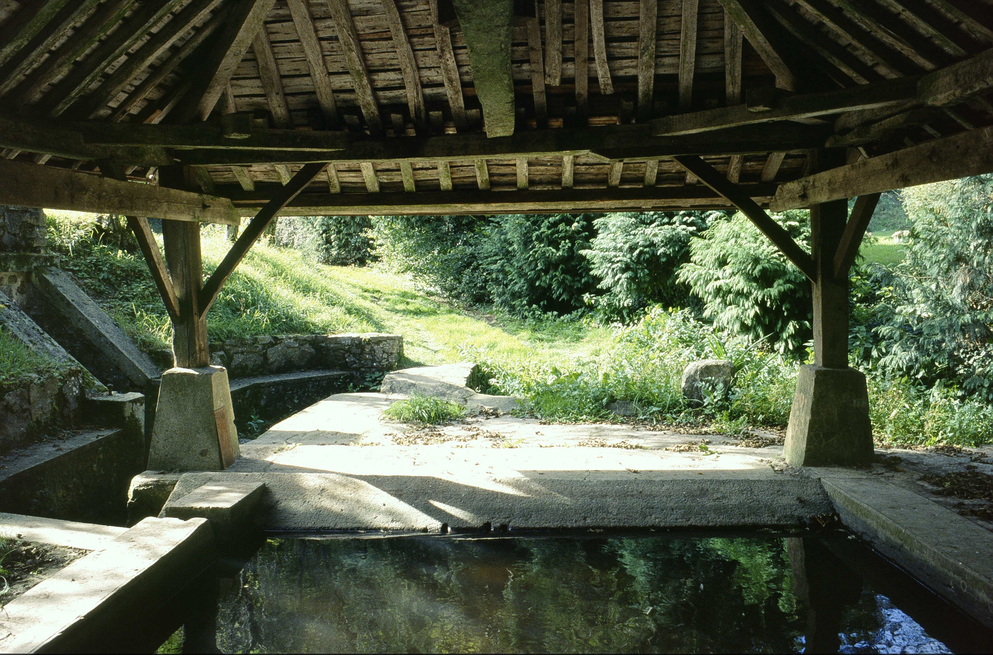 The wash house of hamlet "Val besnet" on the country village Fourneaux-le-Val